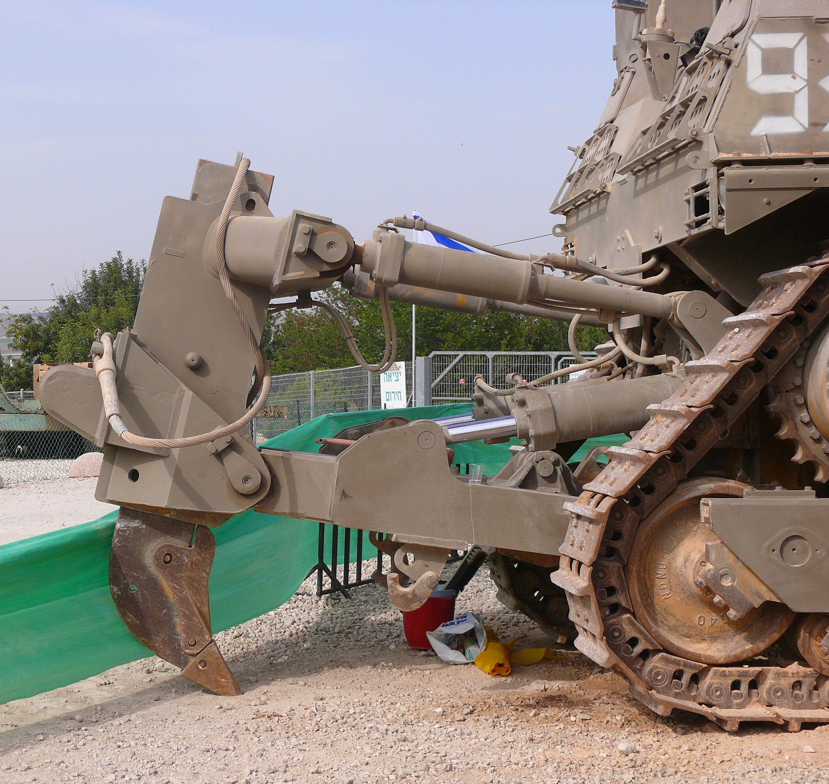 The rear ripper of an IDF Caterpillar D9R armored bulldozer